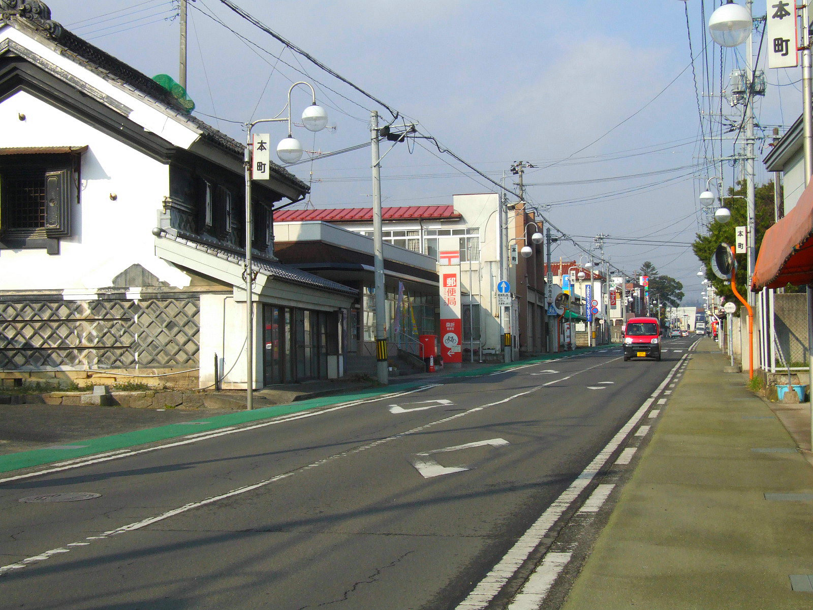 Kōri Post Office on the old Ōshū Road. Kōri, Fukusghima prefecture, Japan.